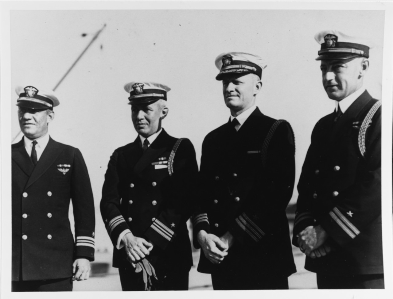 Staff at Naval Air Station, San Diego, California, 17 November 1923. Lieutenant Commander Frank R. Berg, Naval Inspector, engineering material; Lieutenant Commander James L. Kauffman, aid and flag secretary CIC, flag secretary; Commander Chester W. Nimitz, aid and assistant chief of staff, battle fleet; Lieutenant Robert D. Kirk-Patrick, aircraft squadrons, Battle Fleet, At Naval Air Station, San Diego, California, 17 November 1923.